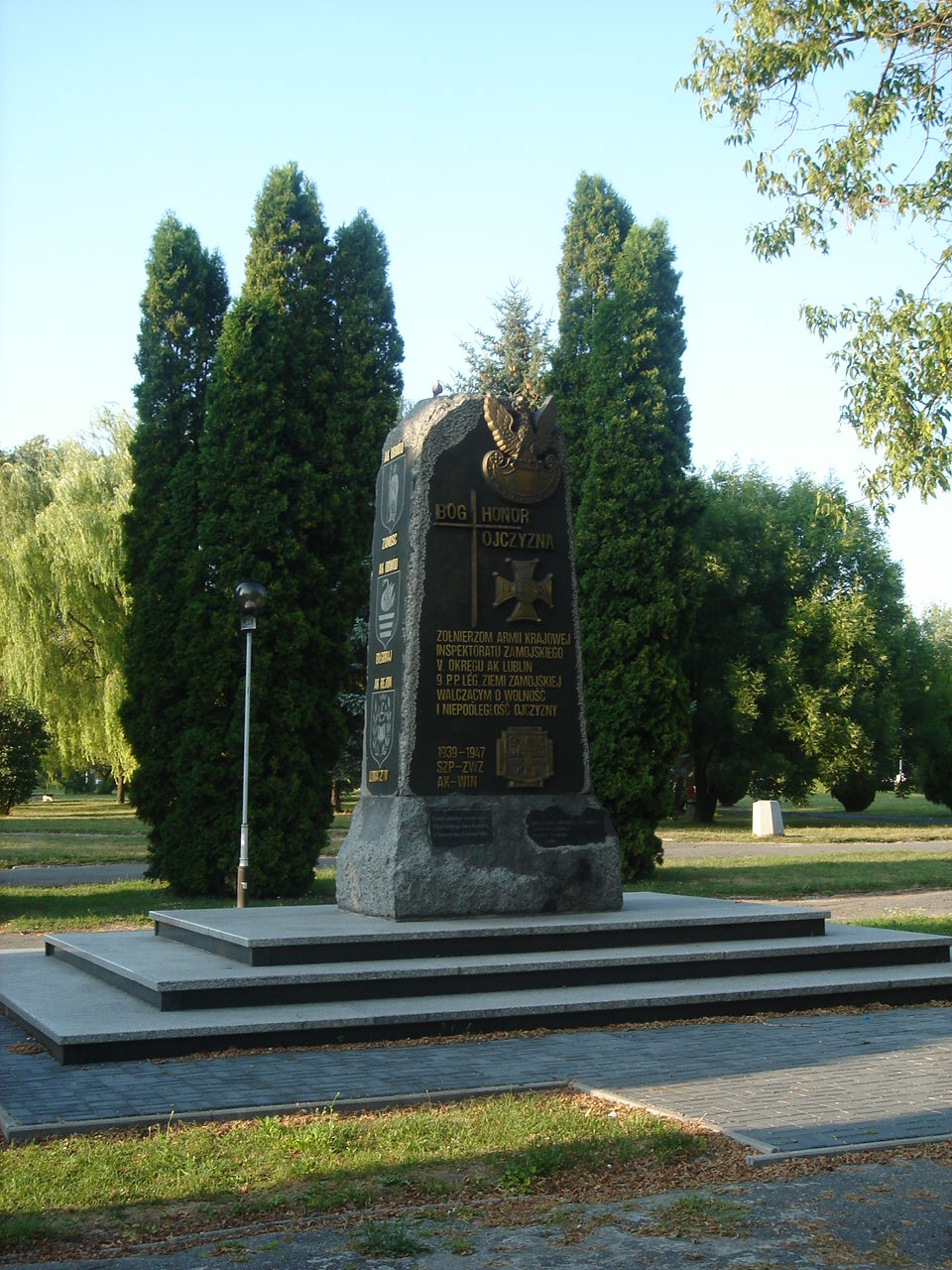 Armia Krajowa (Home Army) monument in Zamość